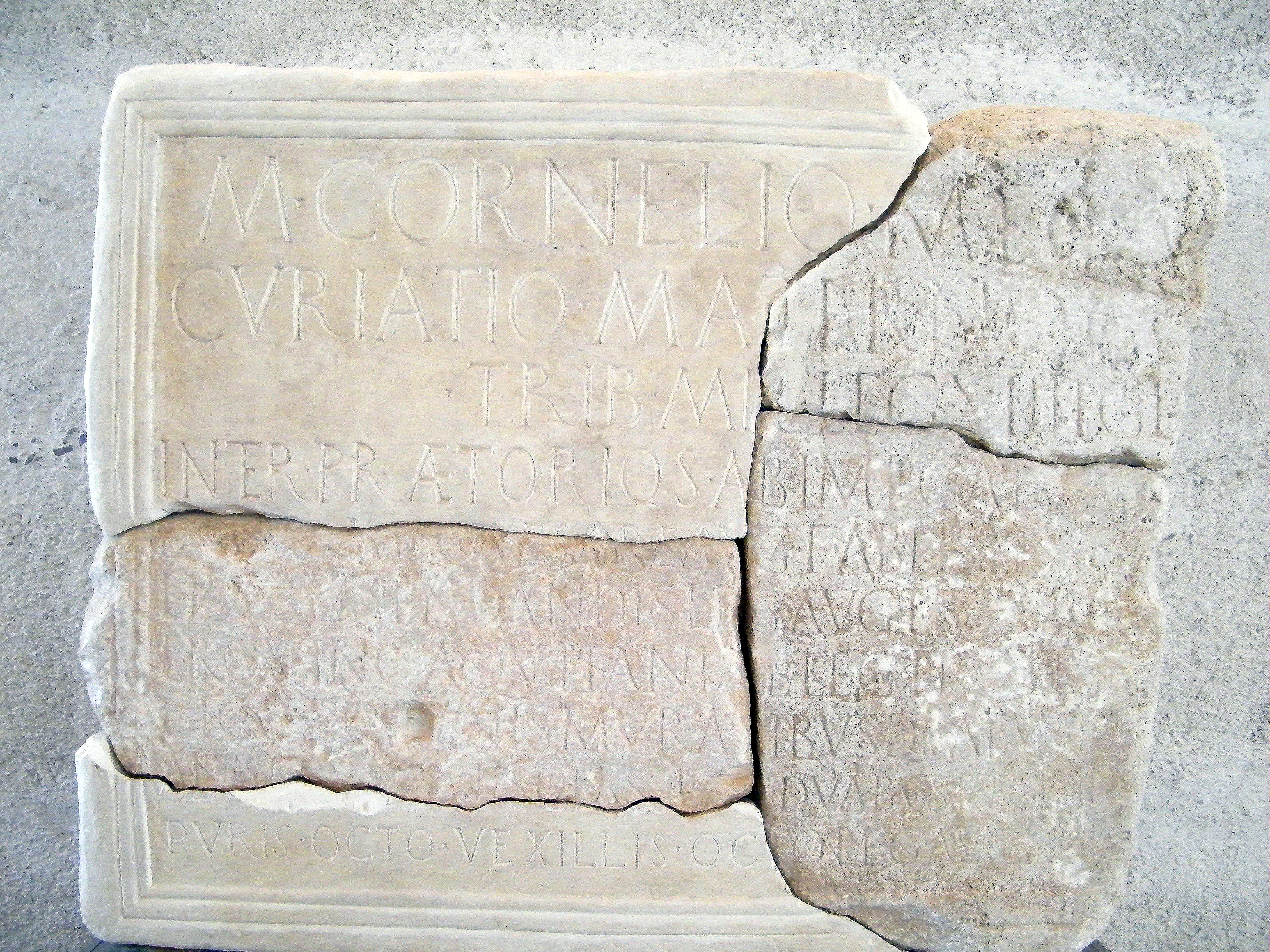 Inscription dedicated to Marcus Cornelius Nigrinus Curiatius Materno, consulate senator, who was from Edeta, and governor of Syryia. Nigrinus was a rival of Trajano with serious hopes of proclaiming himself Emperor. The Latin text is as follows: M(arco) Cornelio] M(arci) f(ilio) Ga[l(eria) Nigrino] / [Curiatio Ma]terno co(n)[s(uli) ---] / [--- trib(uno) mi]l(itum) leg(ionis) XIIII Ge[minae adlecto] / [inter praetorios a]b Imp(eratore) Caesar[e Vespasiano Aug(usto)] / e[t Tit]o Imp(eratore) Caesare A[u]g(usti) f(ilio) ab eis prae[---]/libus emendandis leg(ato) Aug(usti) leg(ionis) VIII Au[gust(ae) leg(ato) Aug(usti) pro pr(aetore)] / provinc(iae) Aquitania leg(ato) pro pr(aetore) M[oesiae donato bello Da]/cico co[ro]nis mura[l]ibus duabus et [coronis vallaribus du]/abus e[t coro]nis classic[is] duabus et coro[nis aureis duabus hastis] / [puris octo vexillis oc]to leg(ato) Aug(usti) pro [pr(aetore) provinc(iae) Syriae Diagram with the text of the inscription on the website of the University of Alcala de Henares Epigraphische Datenbank Heidelberg HD010766 Honorary inscription exhibited in the Archaelogical Museum of Lliria (MALL).